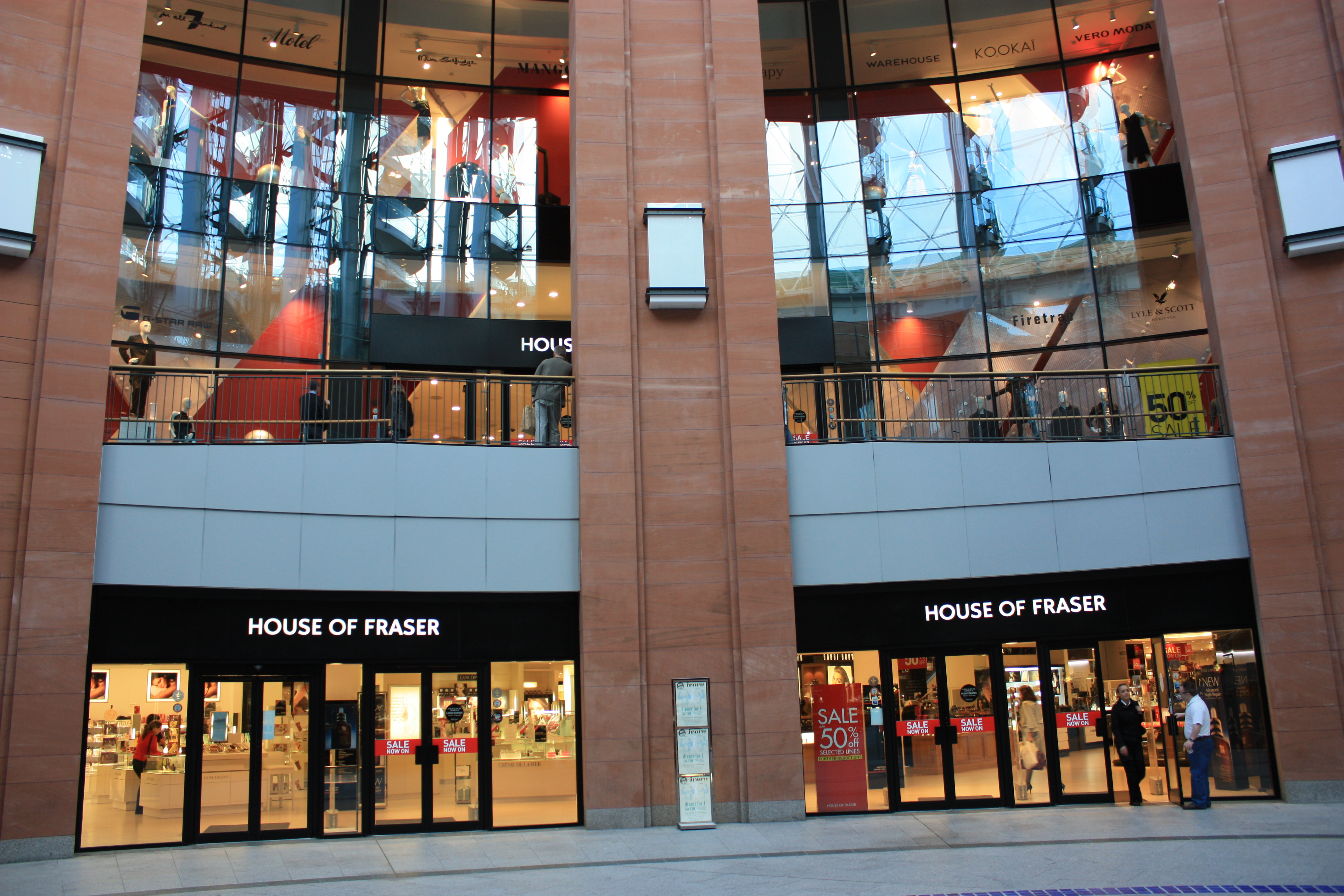 House of Fraser, Victoria Square, Belfast, Northern Ireland, October 2009